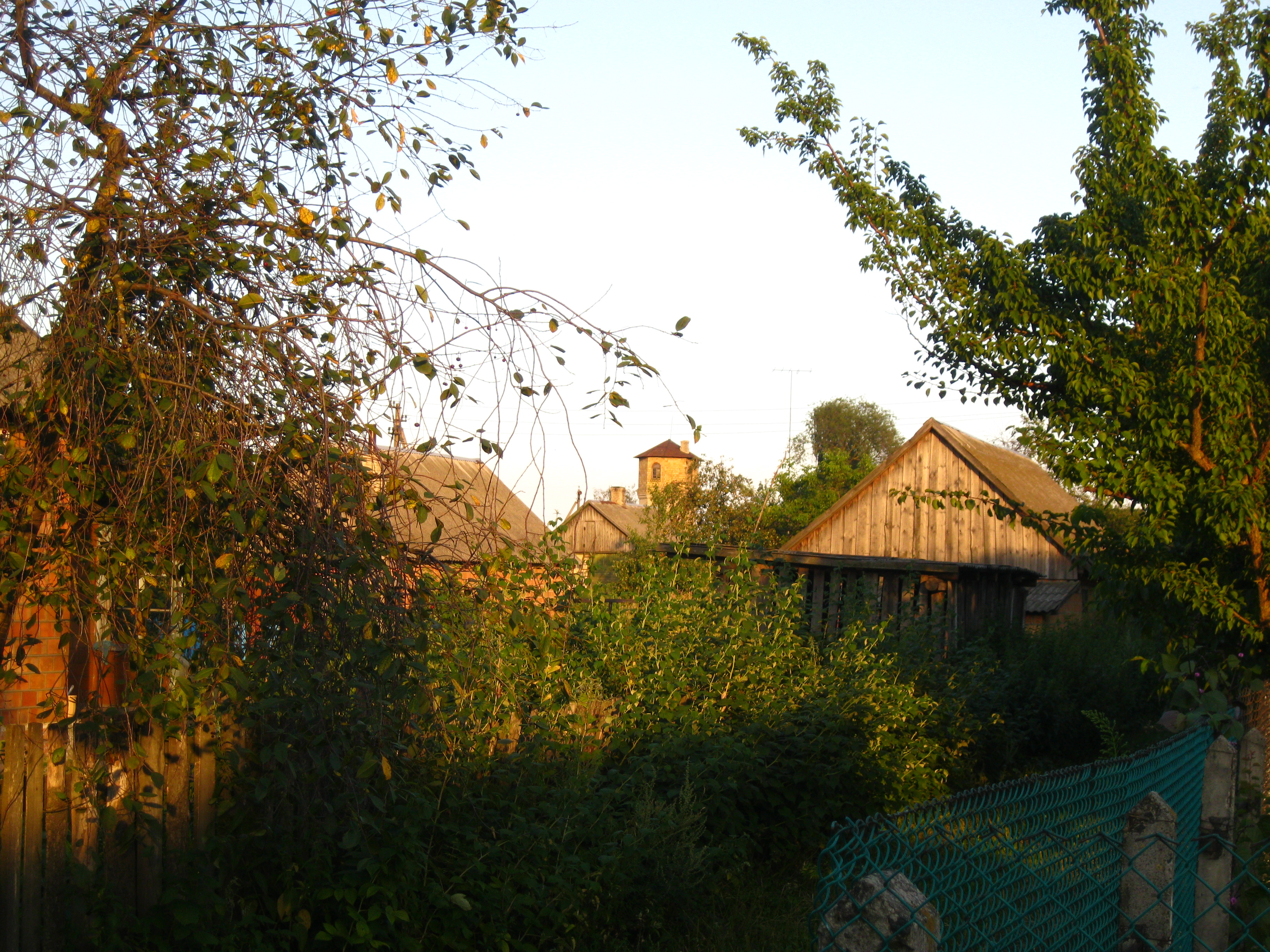 Buildings, Rechitsa, Stolin district, Belarus